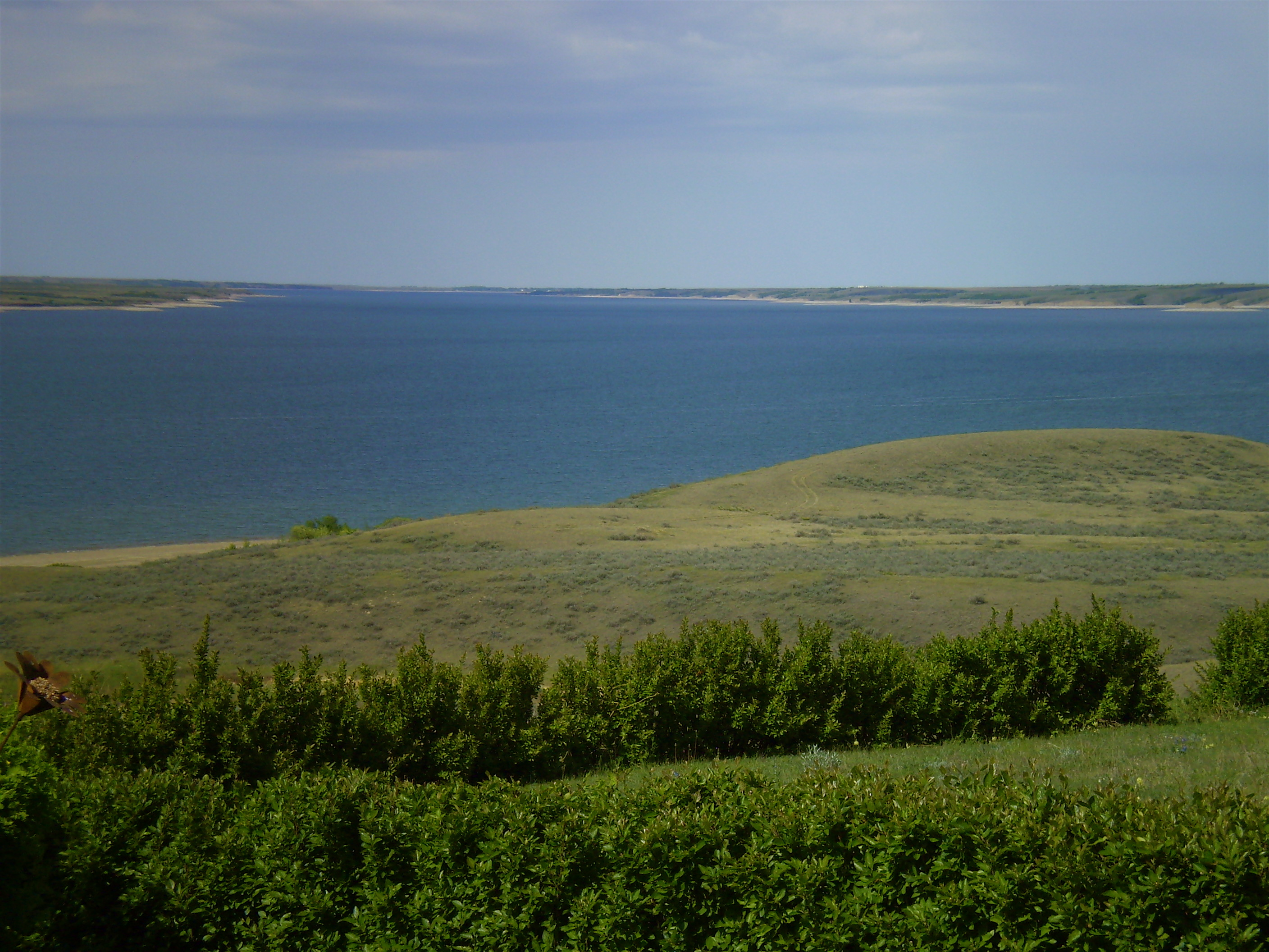 Lake Diefenbaker in September. Taken near Riverhurst, SK.